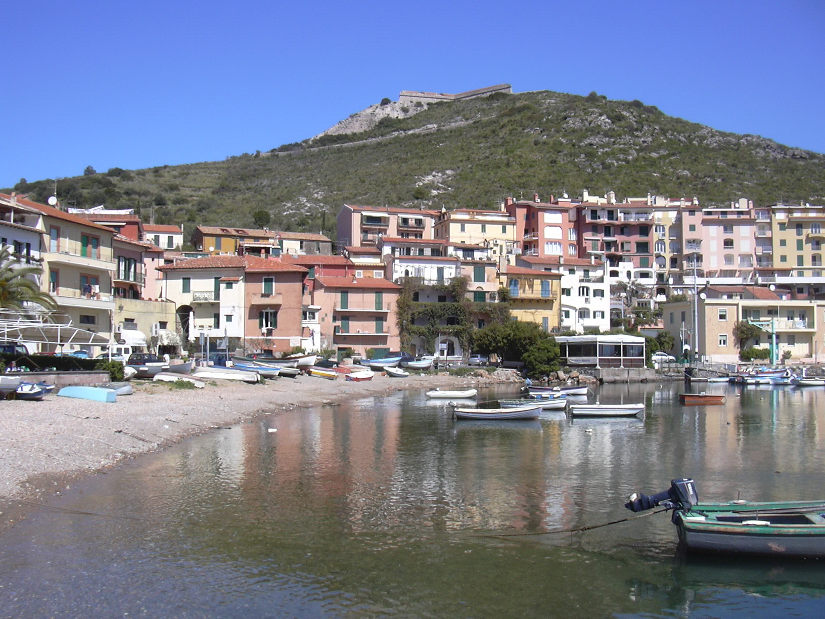 Porto Ercole, Tuscany/Italy